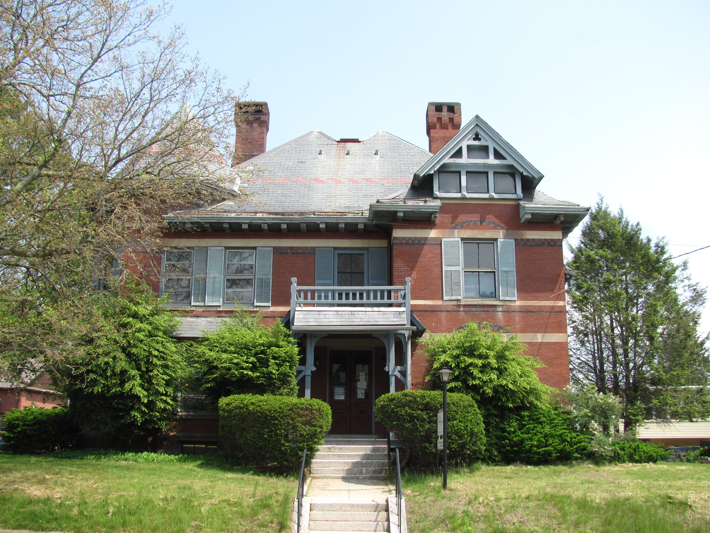 Samuel C. Hartwell House, Southbridge Massachusetts - MACRIS Listing